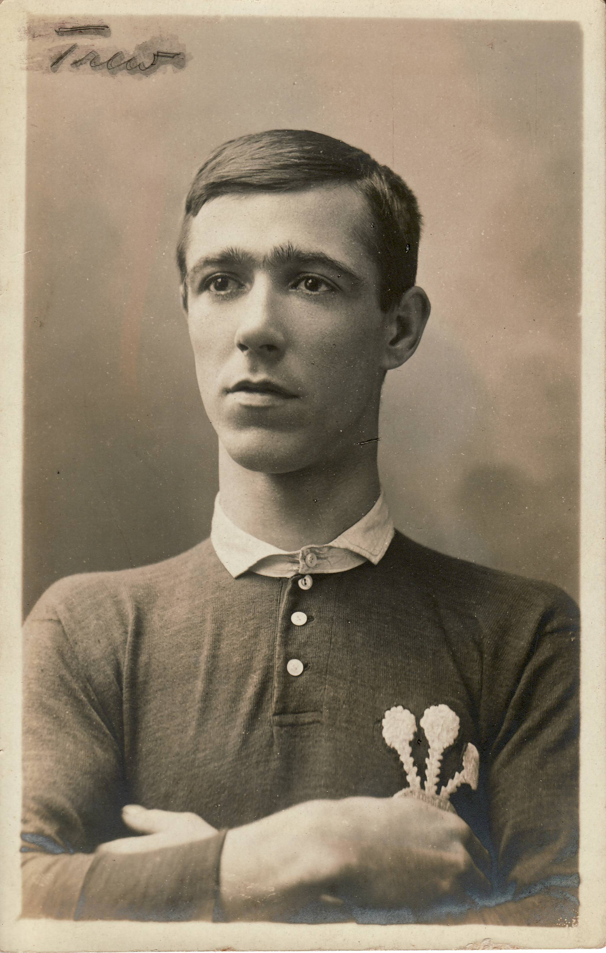 Wales international rugby union player Bill Trew in Welsh jersey